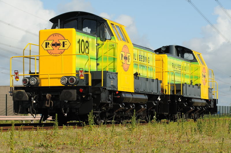 Rotterdam Rail Feeding 108 + 107 (former SNCB 7380 and 7378) waiting for their next duty at the Maasvlakte.